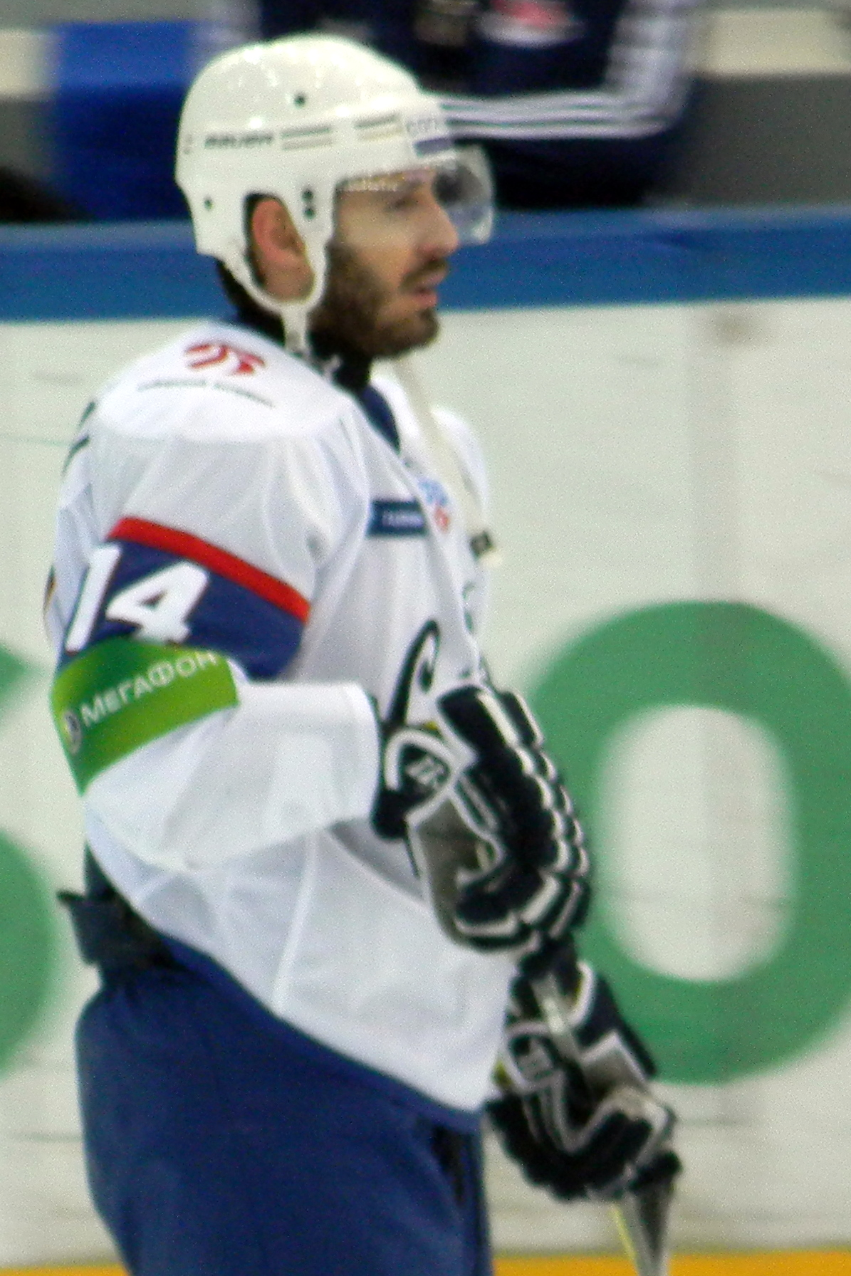 Viktor Alexandrov, an ice-hockey player from HC Sibir Novosibirsk